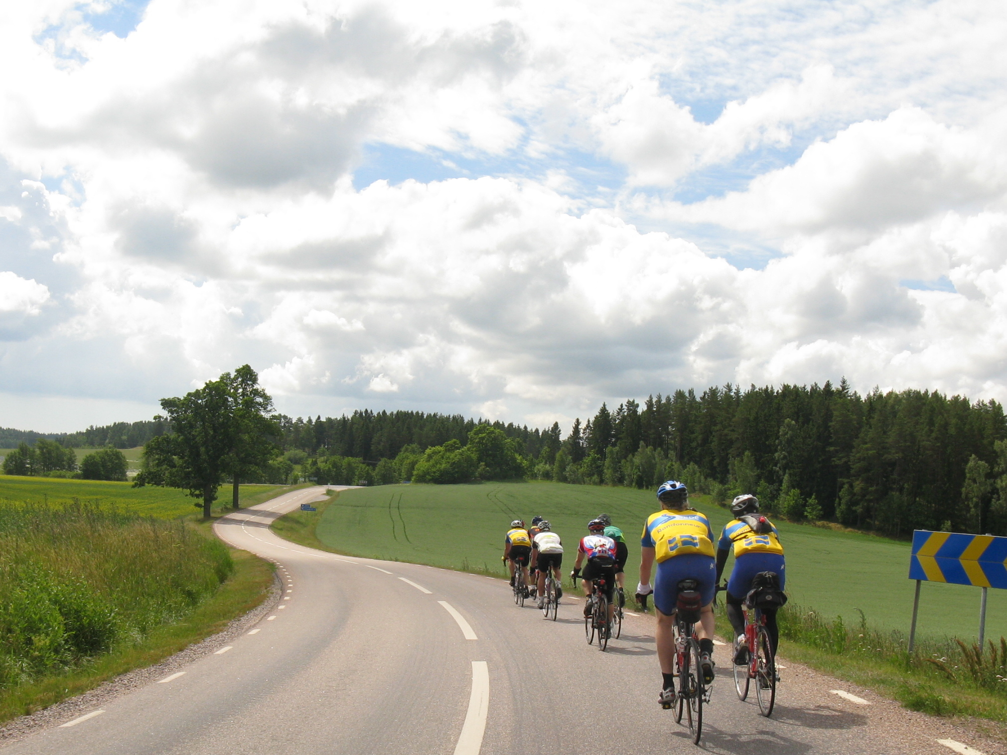 Riders with Randonneurs Sverige jerseys on the Stockholm-Gothenburgh non-stop race.